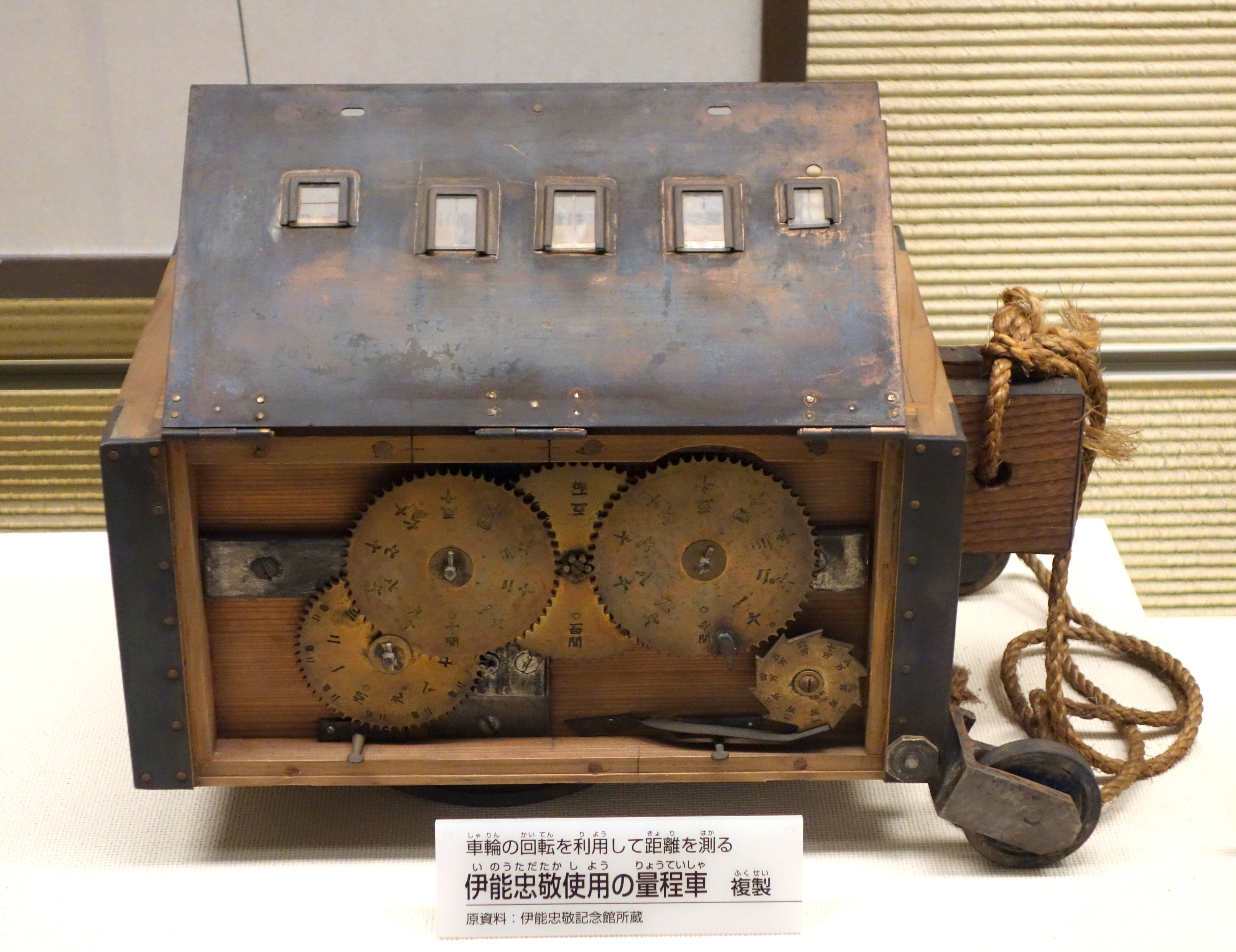 Exhibit in the National Museum of Nature and Science, Tokyo, Japan.